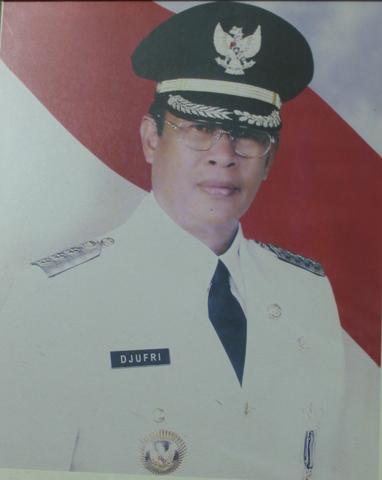 Drs. H. Djufri, 20th Mayor of Bukittinggi in the period 2000-2005 and the 22nd period of 2005-2010